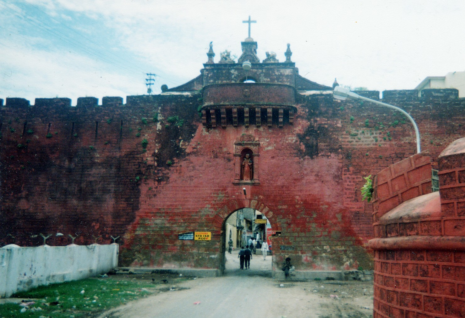 Diu - gate to the Diu Town